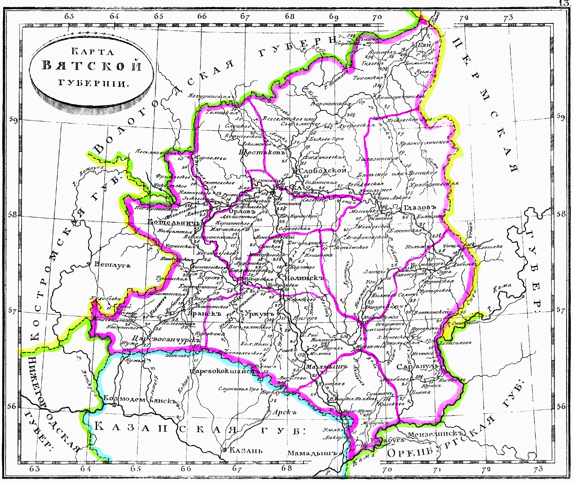 Map of Viatka Governorate, 1835